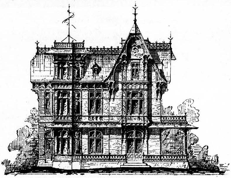 Design for a villa, front elevation.